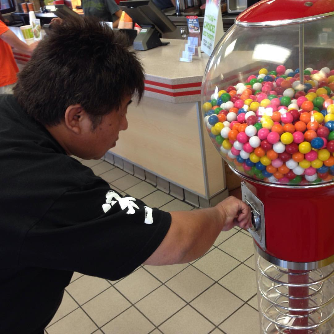 Bride Global VP is a kid at heart. The best kind of executive for any firm!! #bridejapan #brideseats @bridejapan @bride_japan #SasaoMasahiro #club4ag #tunervip #automotiveindustry